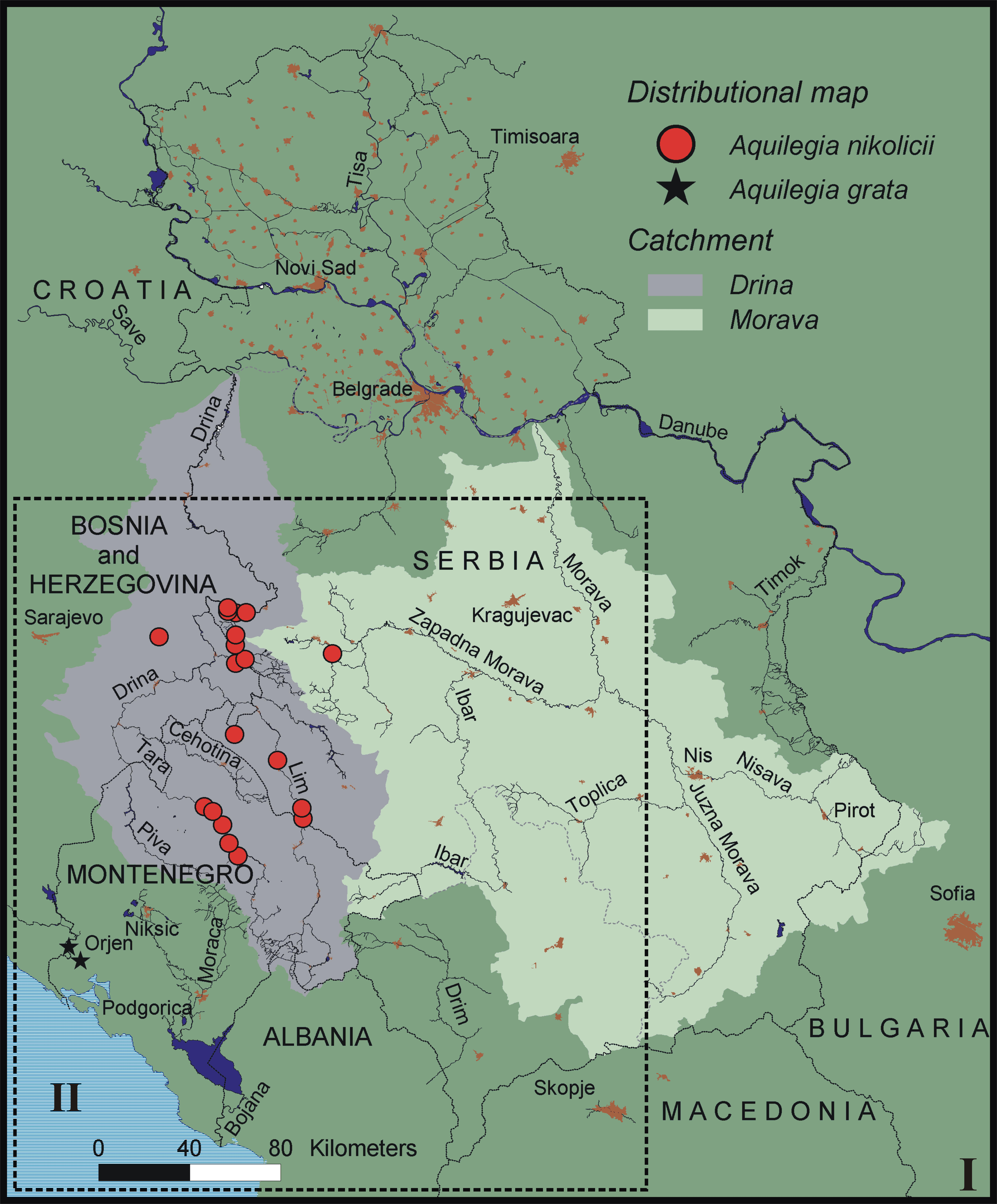 Distributional map Aquilegia nikolicii from the Drina catchment area. Map is drawn after Niketić, M., Cikovac, P., Stevanović, V. 2013: Taxonomic and nomenclature notes on Balkan columbines (Aquilegia L., Ranunculaceae). In: Bulletin of the Natural History Museum Belgrade, 6: 33-42. [1]